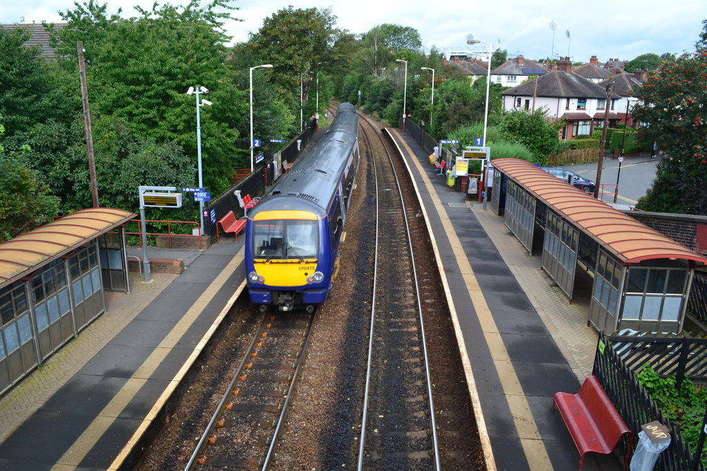 Train passing through Burley Park station